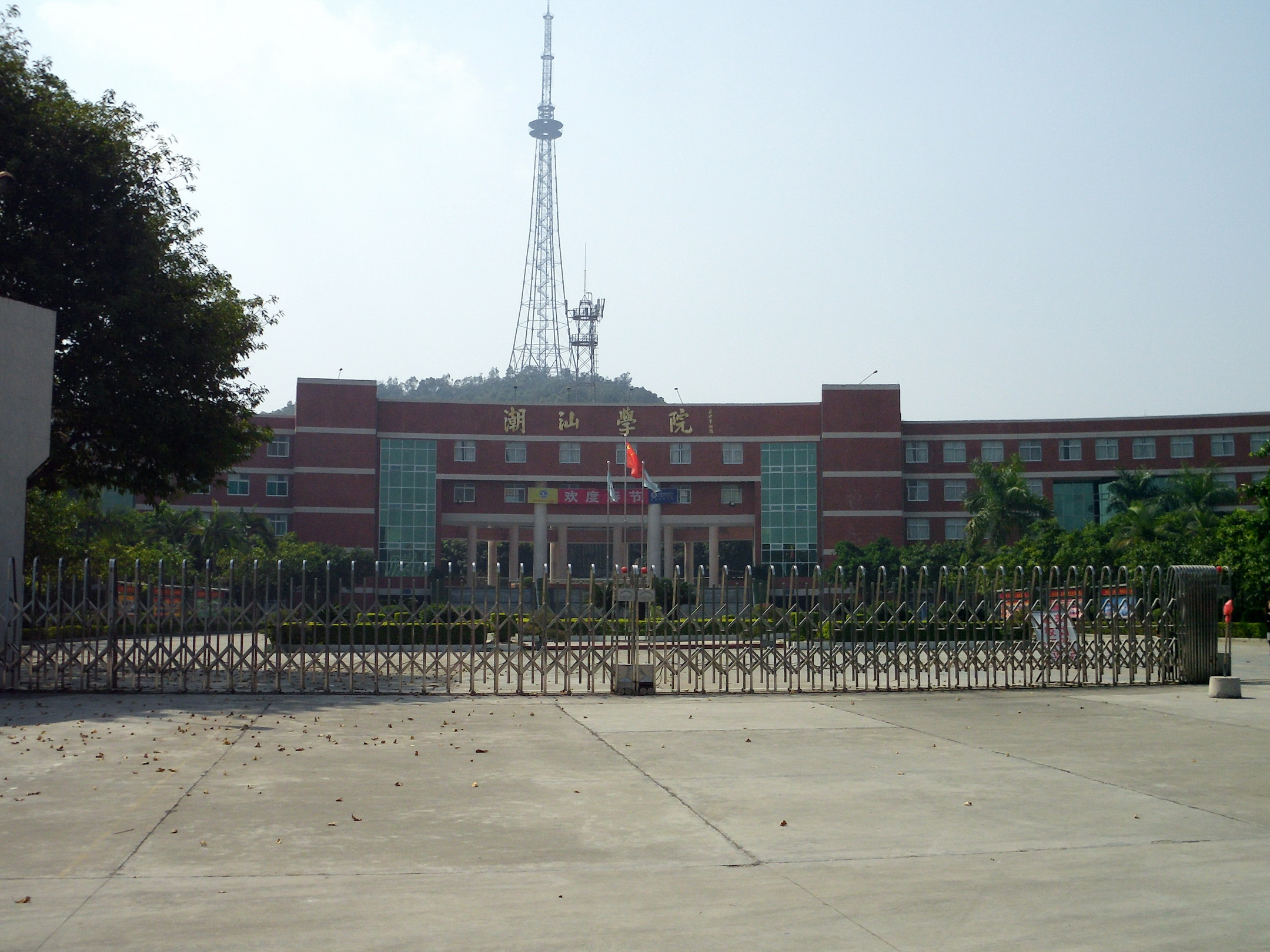 A View of Front Gate of Chaoshan College